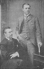 Joseph Chamberlain and his son, Austen Chamberlain (standing)